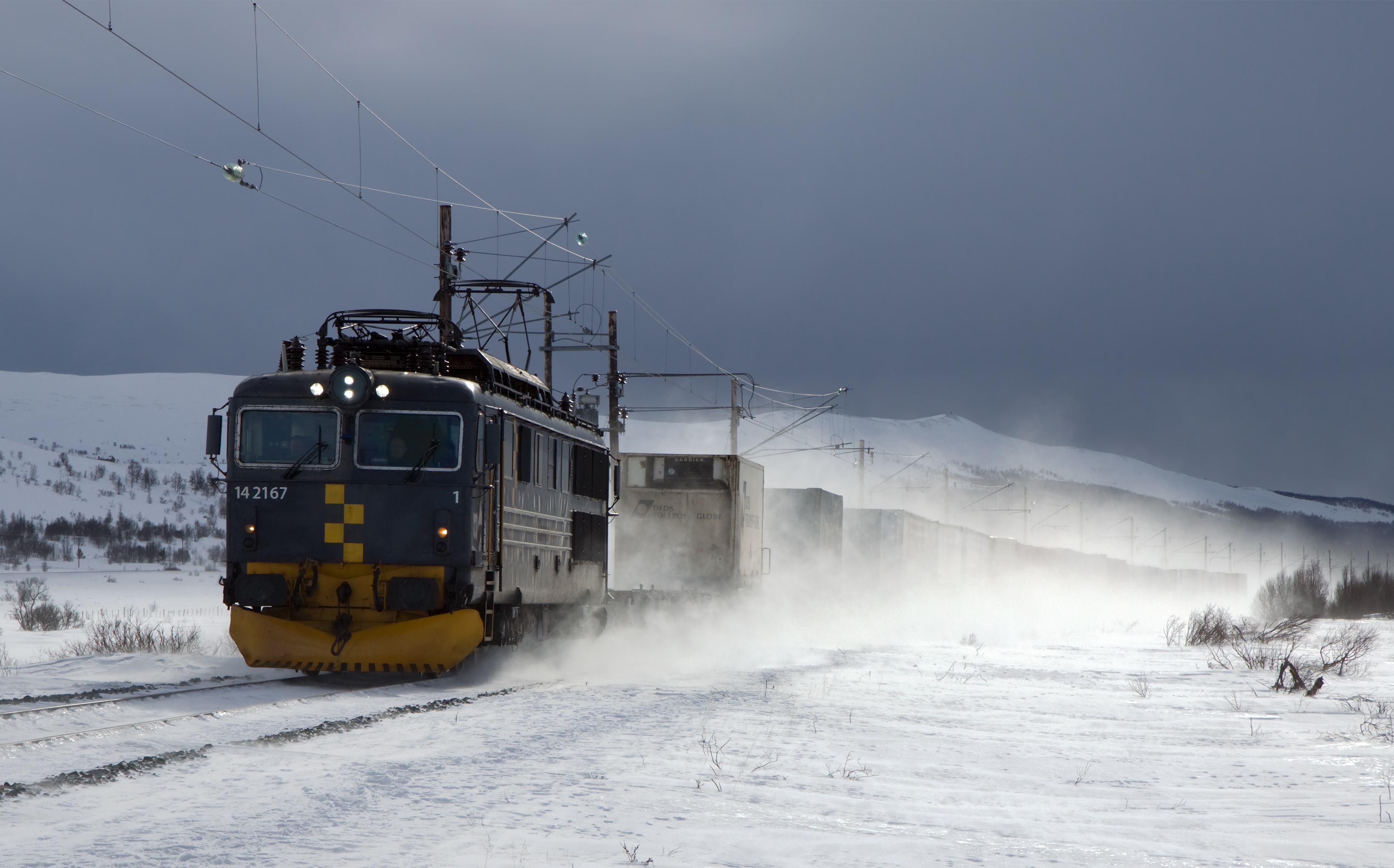 CargoNet El 14 with a container train on the Dovre Line, near Dombås, Norway